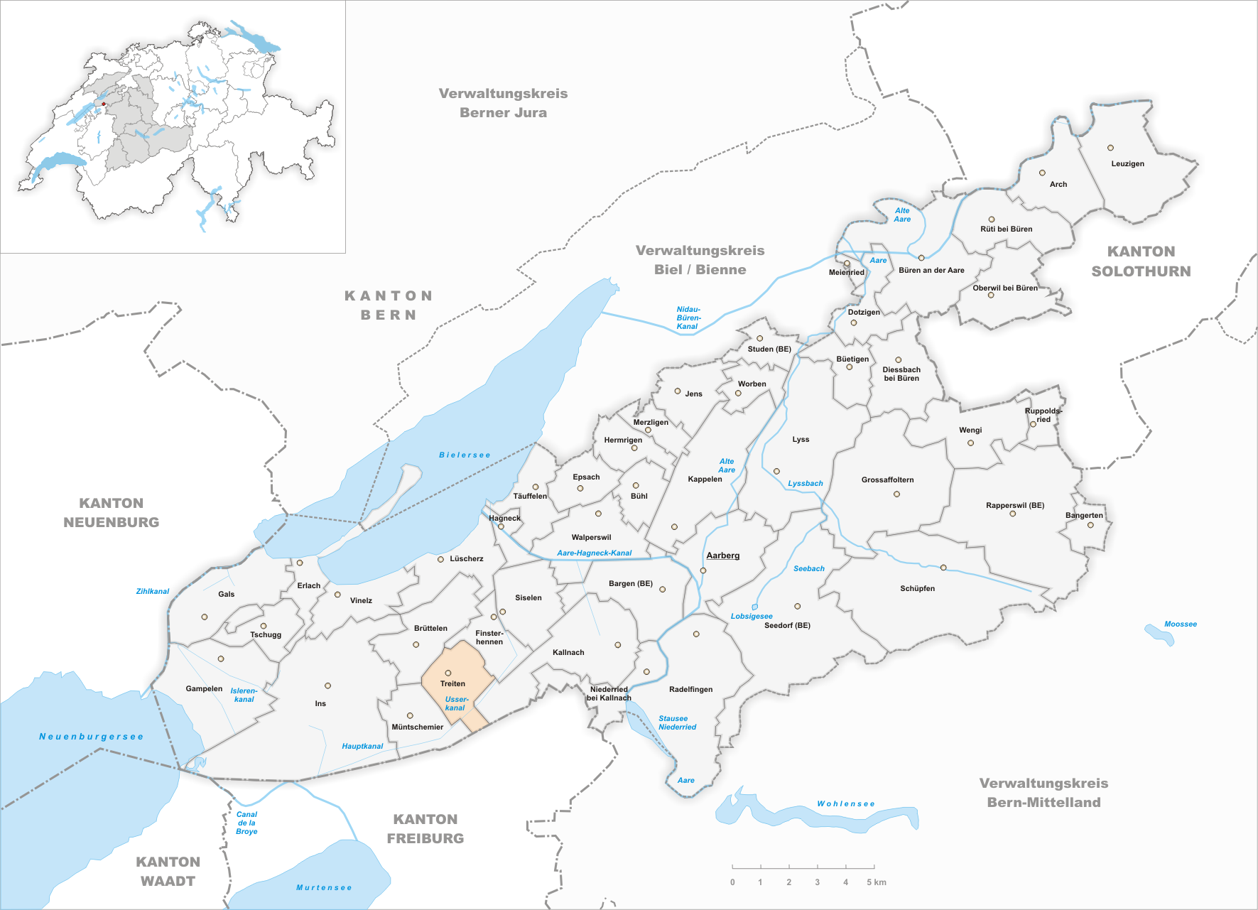 Municipality Treiten